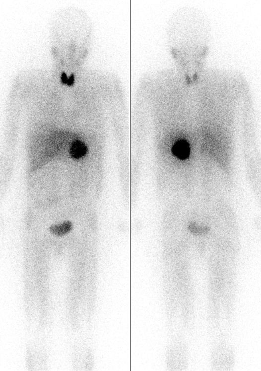 Body scintigraphy 24 hours after intravenous administration of 123Iod-MIBG. Physiological occupancy of the thyroid, liver and bladder. Pathological accumulation in a tumor of the left adrenal glands (pheochromocytoma). Left: from the front. Right: from behind.